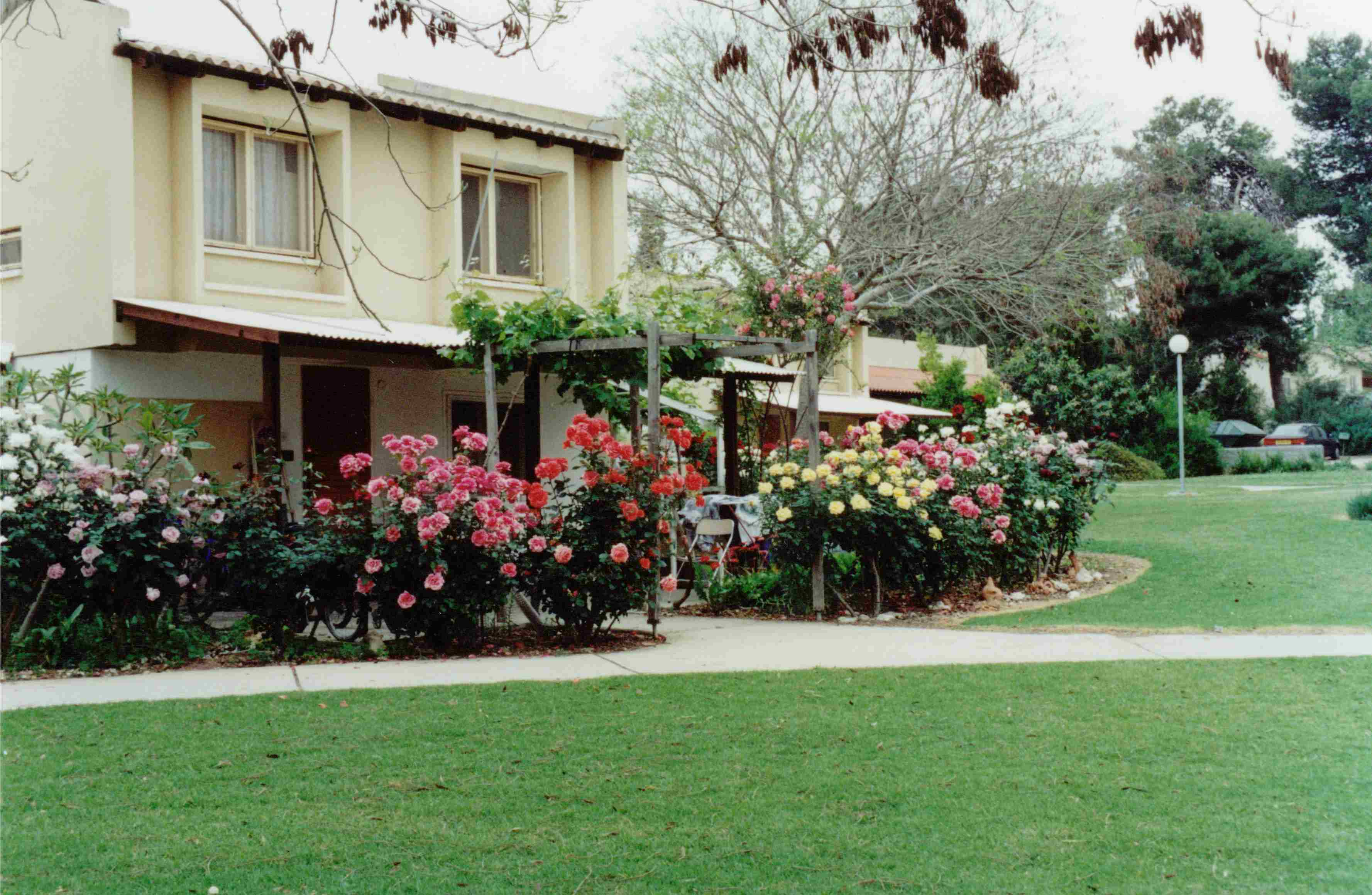 A house in Kibbutz Sa\'ad. The houses are organized in rows of four cottages each